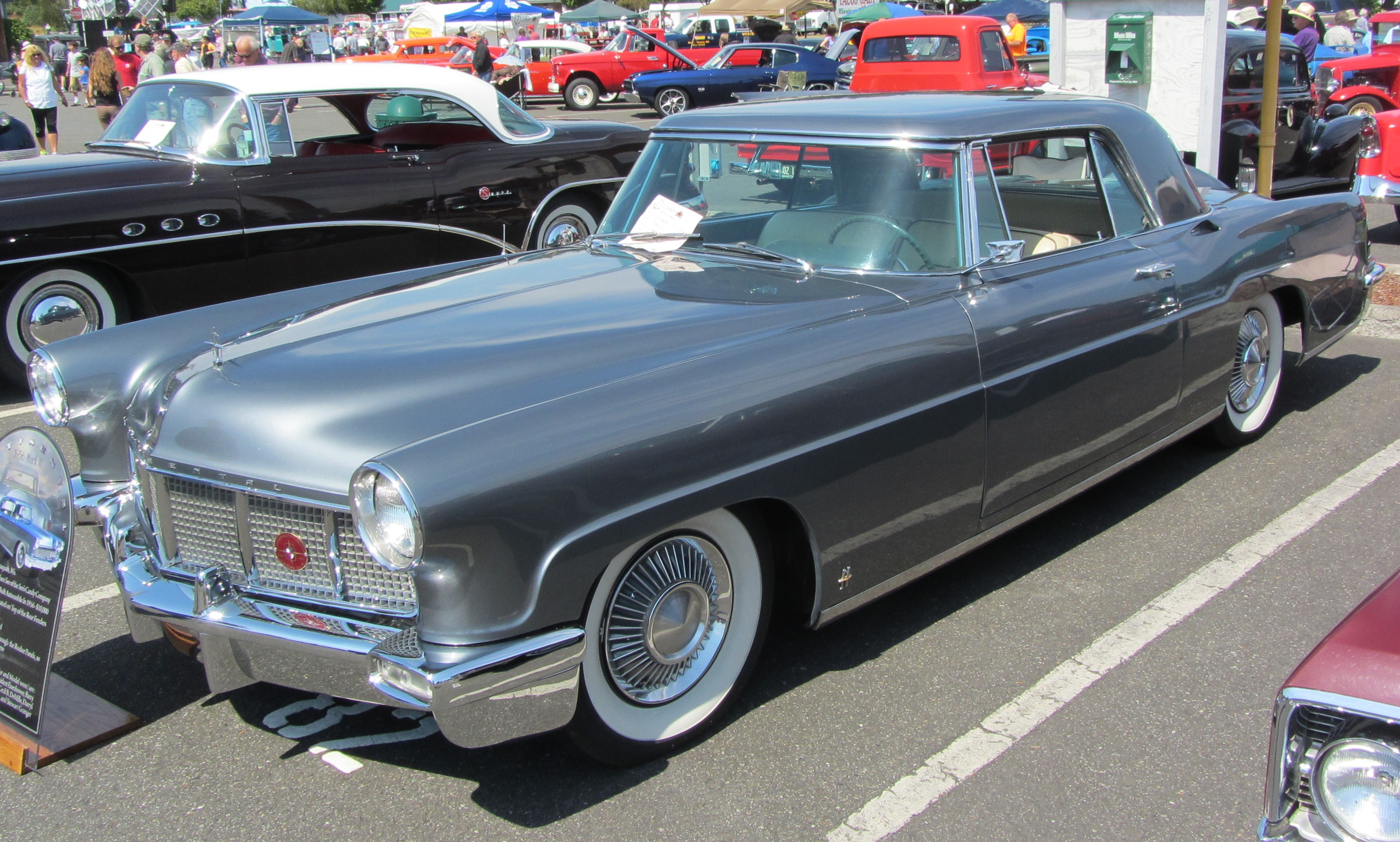 Car and boat show in LaConner, Washington